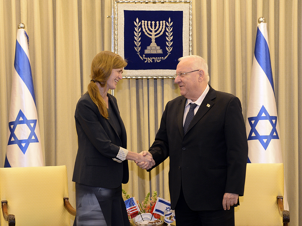 "From the Real UN to the Model UN" - U.S. Ambassador to the UN Samantha Power's visit to Israel.